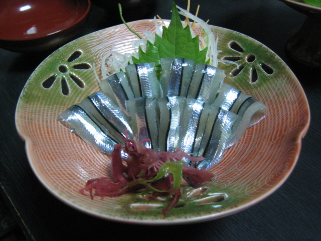 Sashimi of slender sprat - Spratelloides gracilisKibinago Sashimi